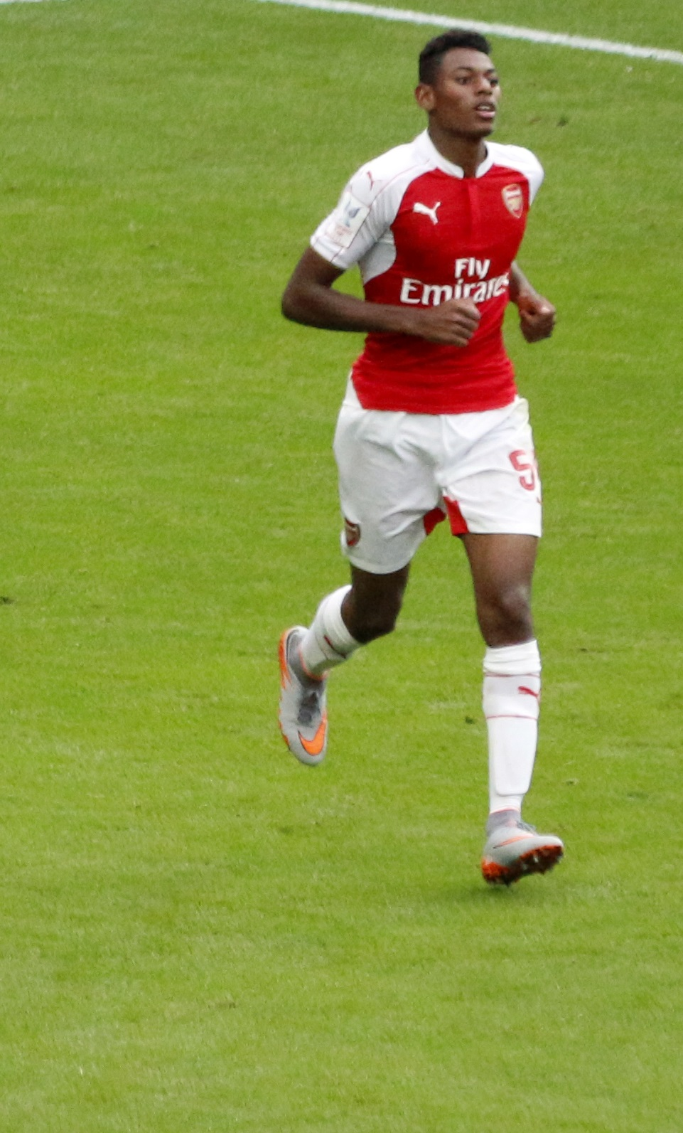 Jeff Reine Adelaide